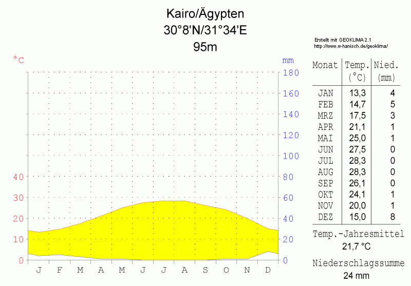 climate chart in the format by Walther and Lieth Kairo